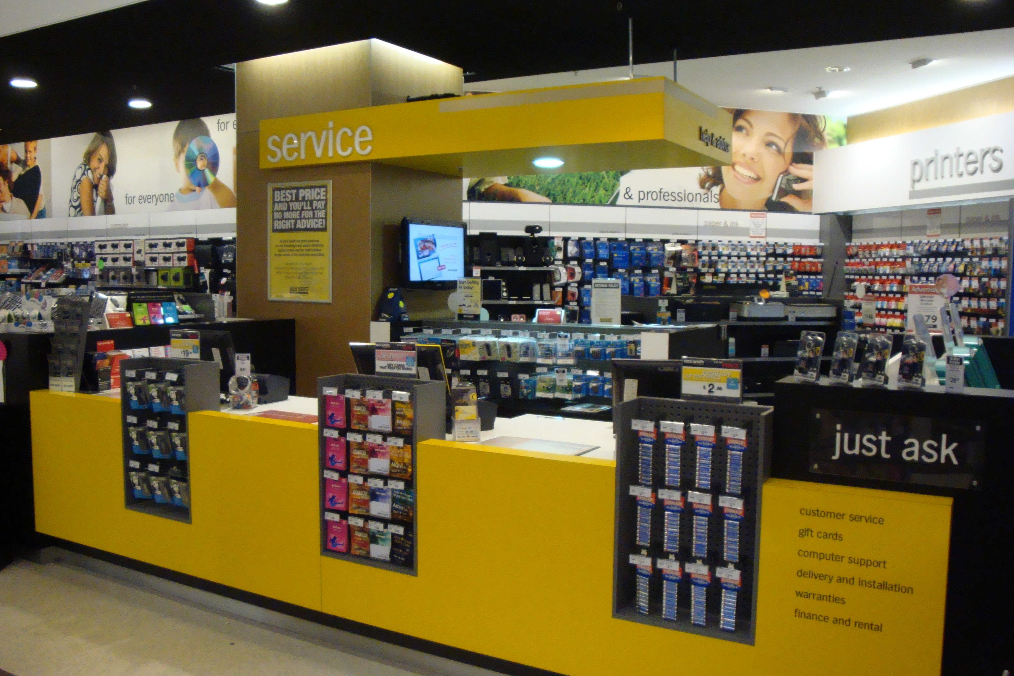 The service desk at Hornsby Dick Smith.